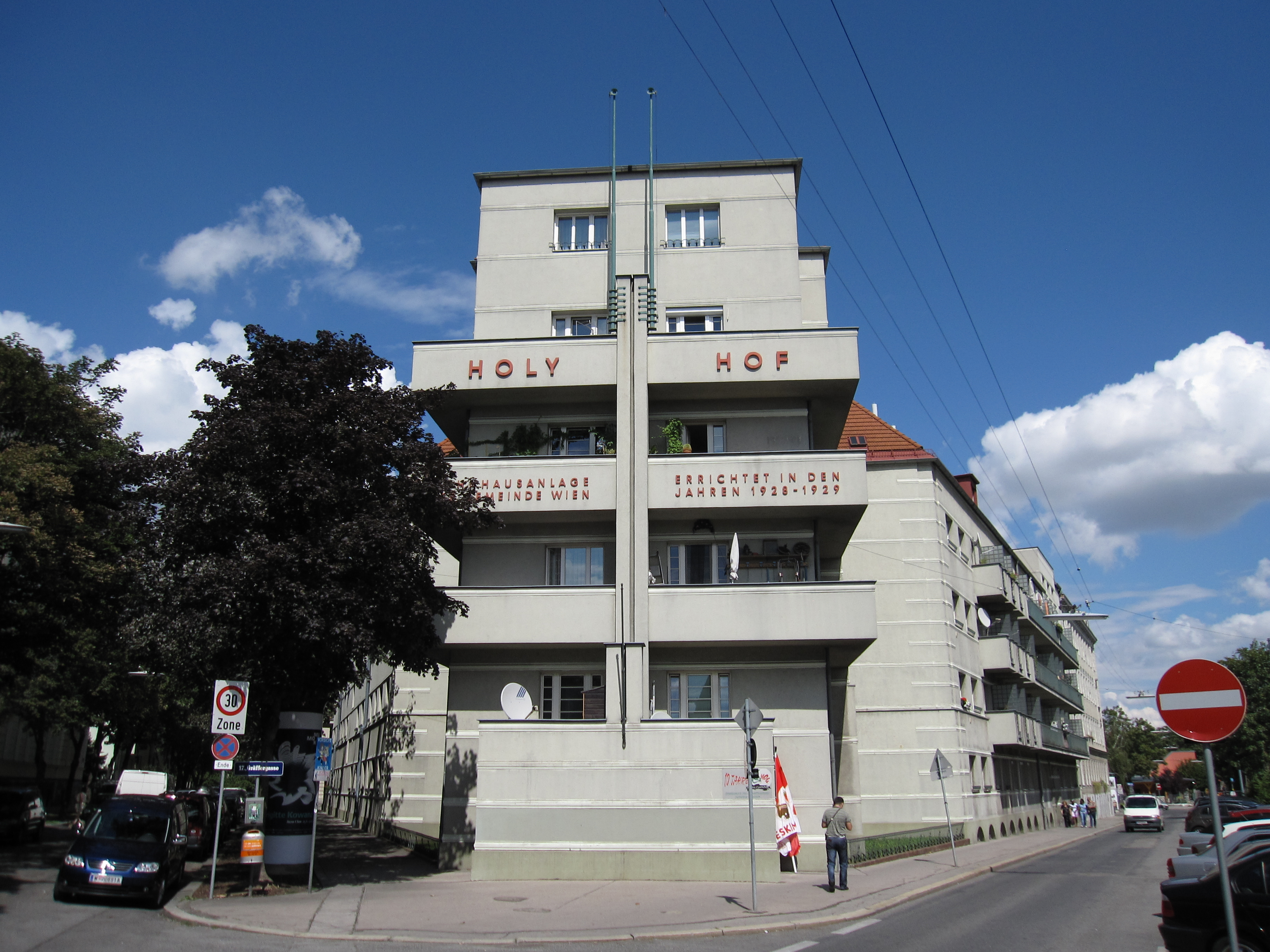 The Holy-Hof in Hernals, Vienna, is a public housing project that was constructed by Rudolf Perco in 1928-1929.